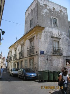 house Crispin